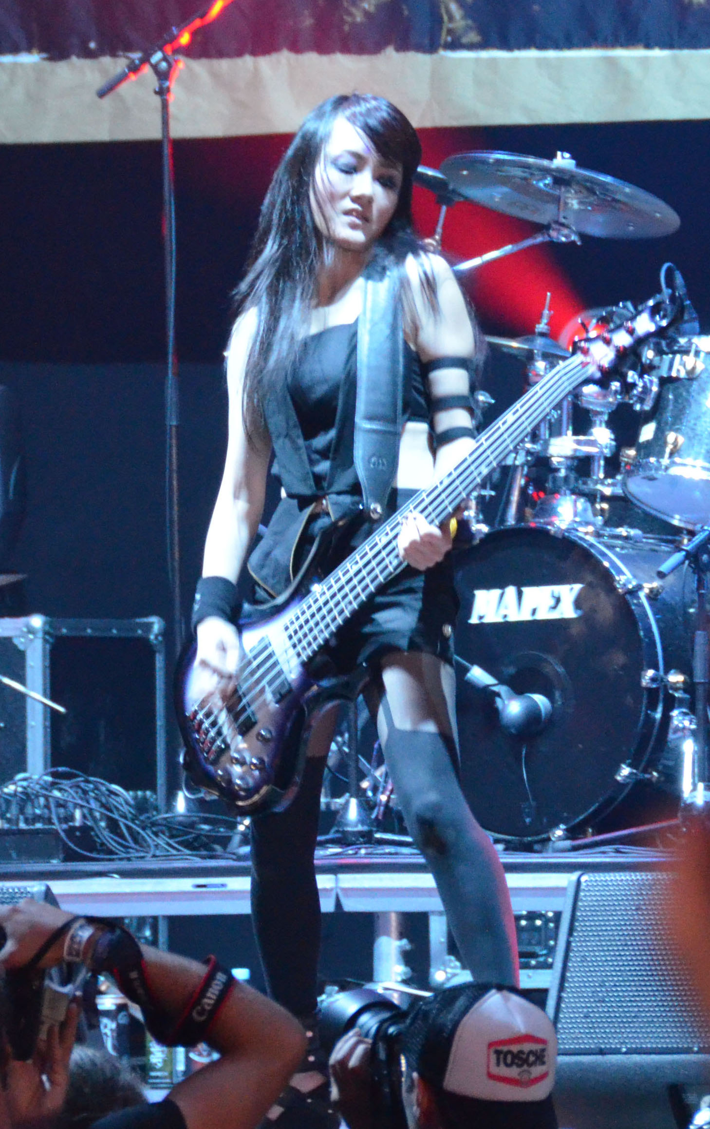 Chthonic at Wacken Open Air 2012